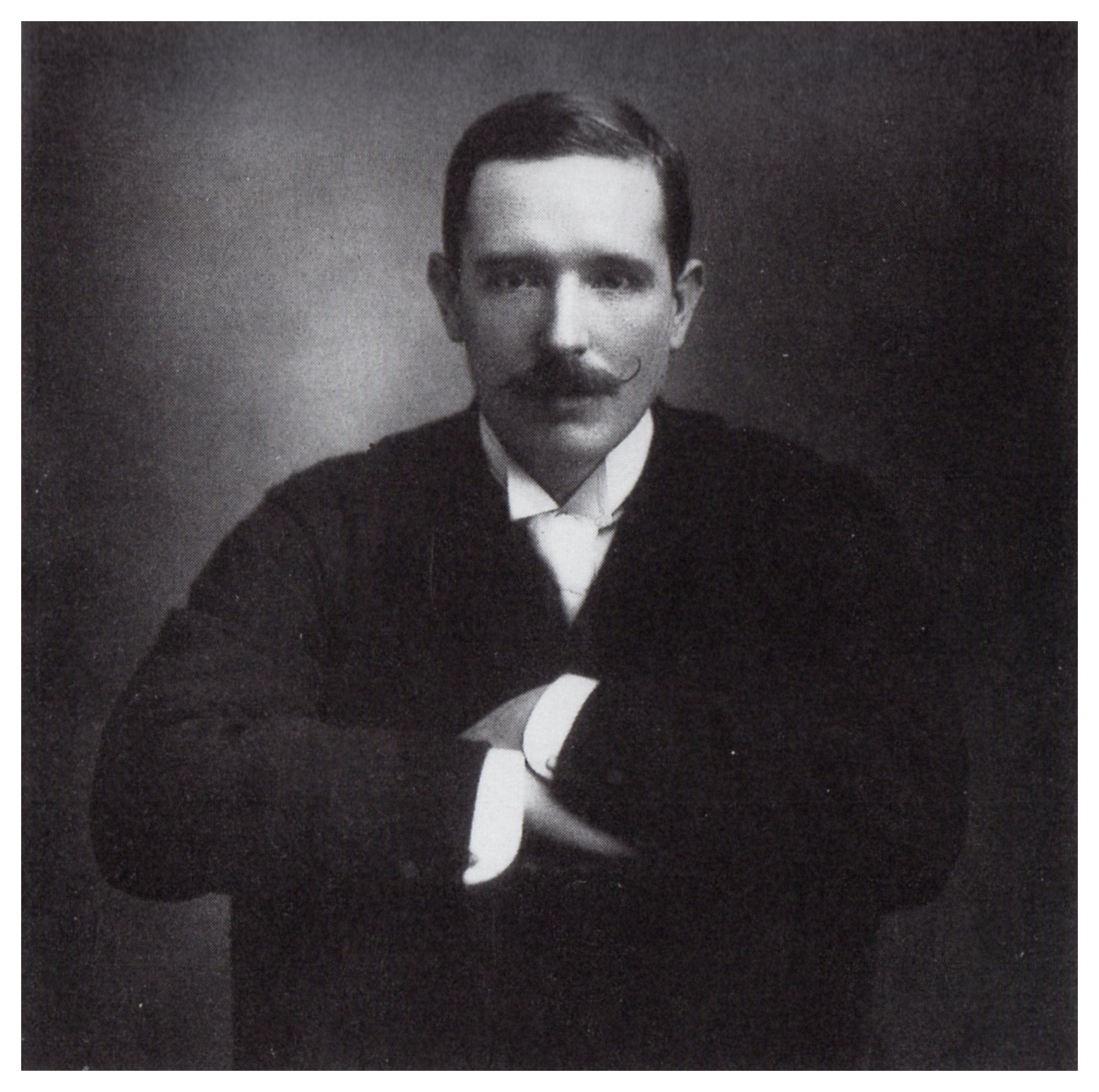 Thomas Keay Tapling.